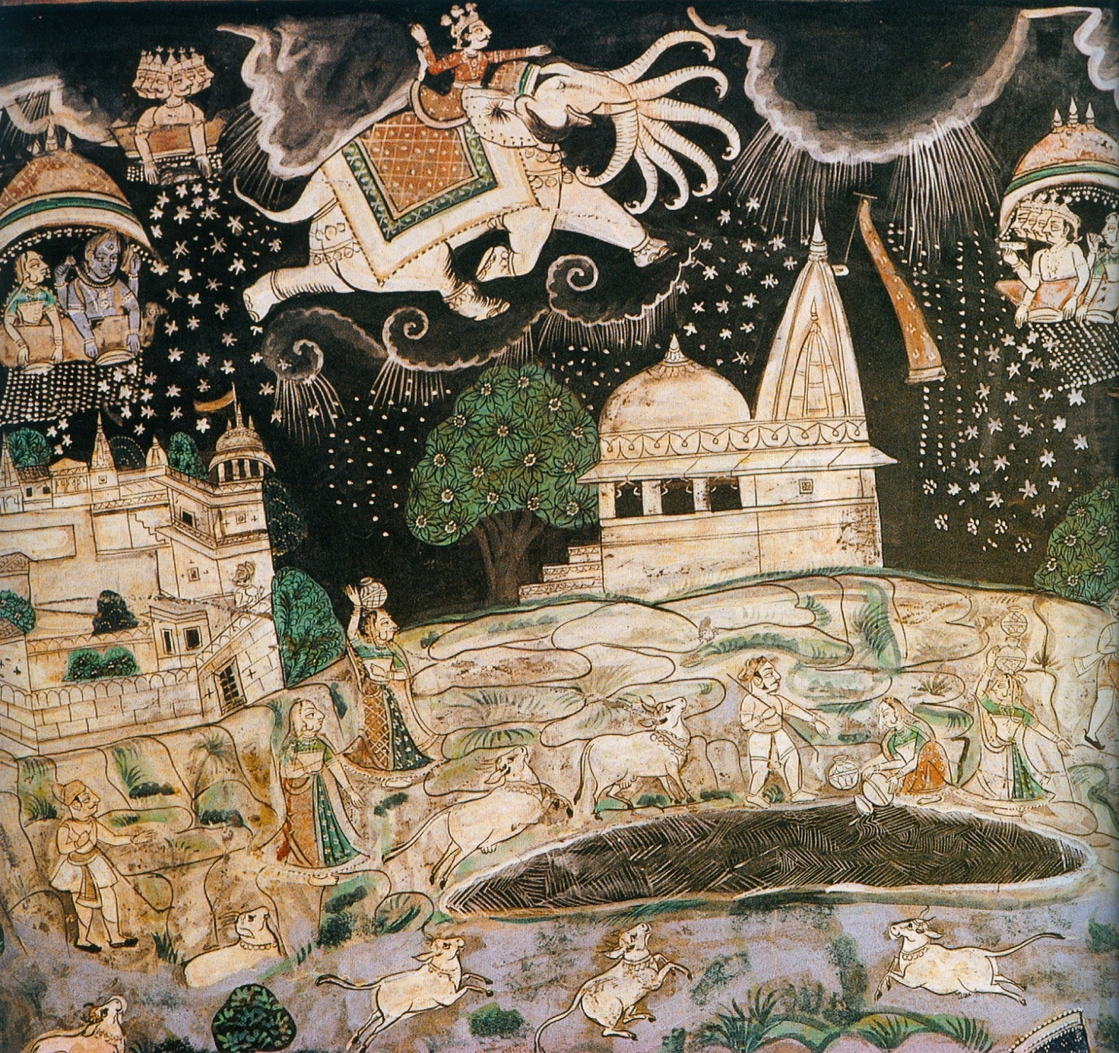 Wedding_of_Rama_and_Sita._Wall_painting_in_Bundi_palace,_18_century.